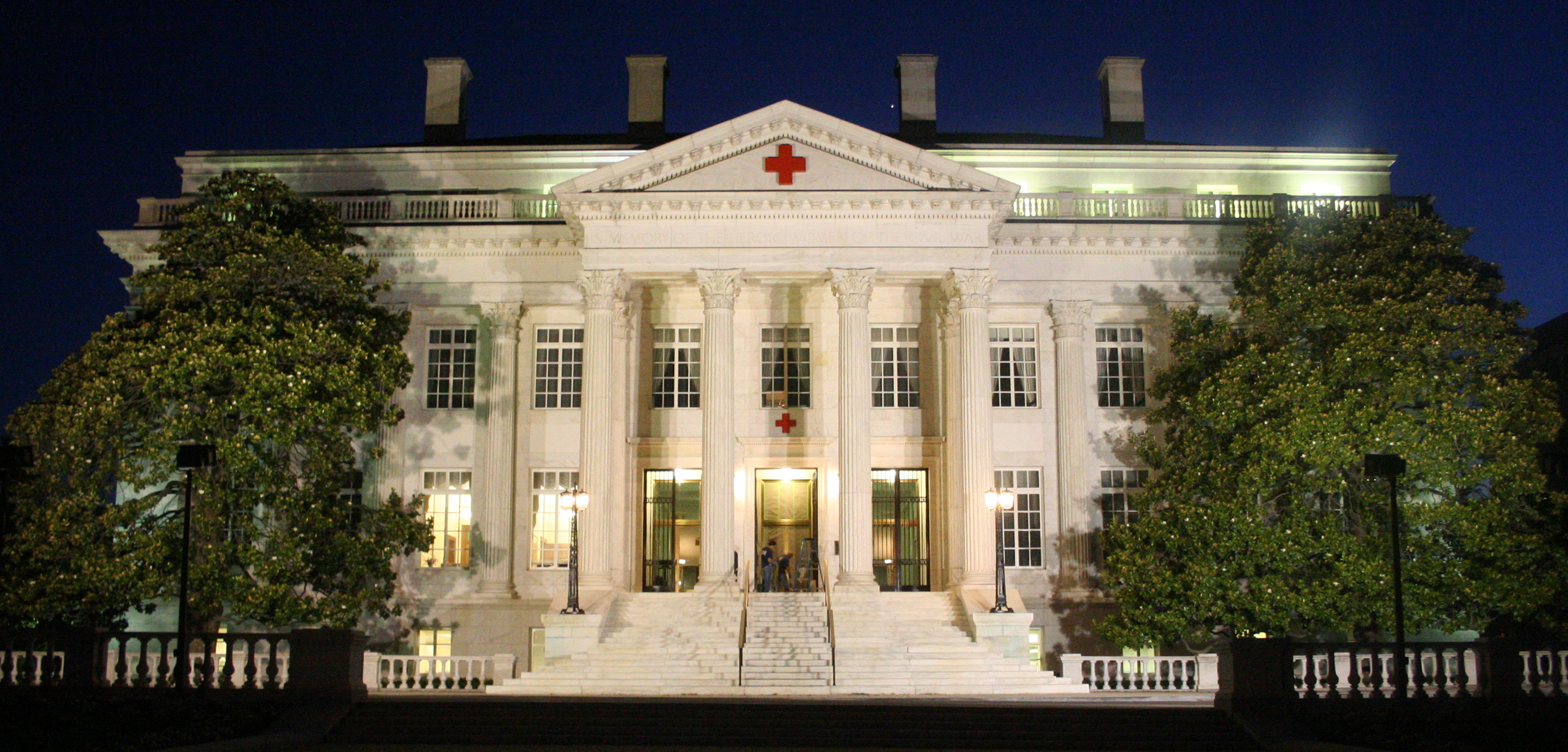 American Red Cross National Headquarters Bldg